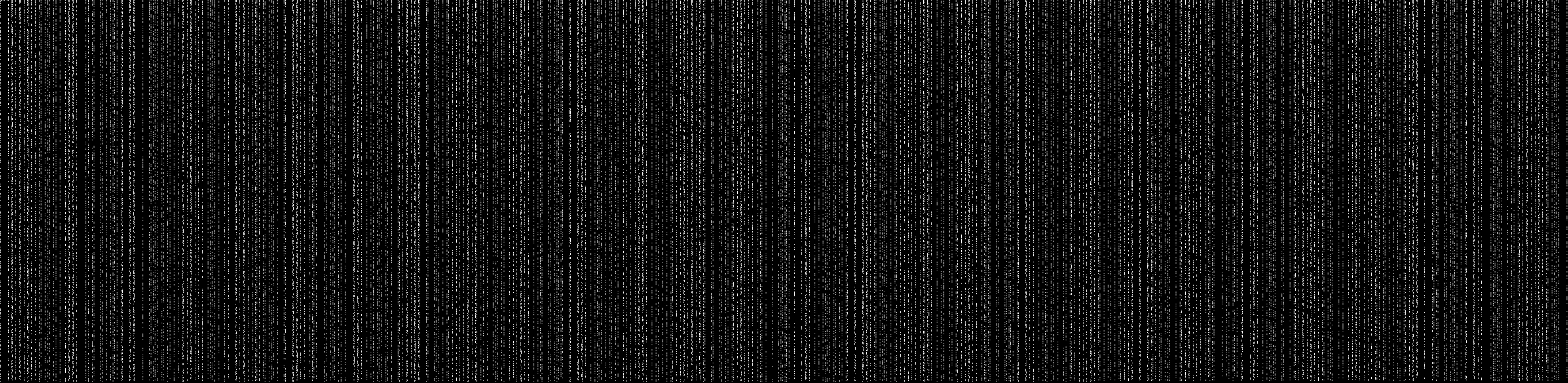 Graphical depiction of the prime numbers in the range 1 to 1299827, where each pixel represents an integer, and the white pixels represent primes. For instance, in the first row the 2nd, 3rd, 5th, 7th, 11th... pixels are illuminated and so on. There are 2310 horizontal pixels, chosen as such because 2*3*5*7*11 = 2310, and thus the vertical "lines" or "gaps" that appear in the image preserve these multiples.